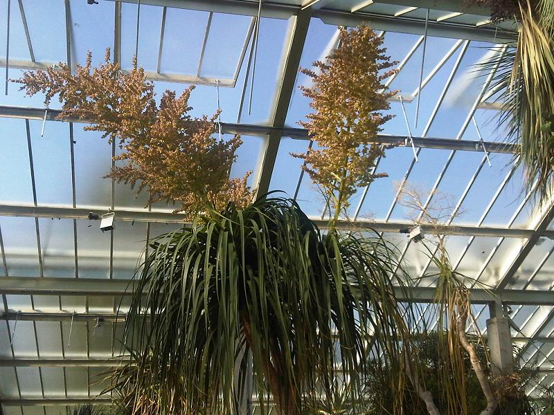 Ponytail palm (Beaucarnea recurvata) in Kew Gardens, England.